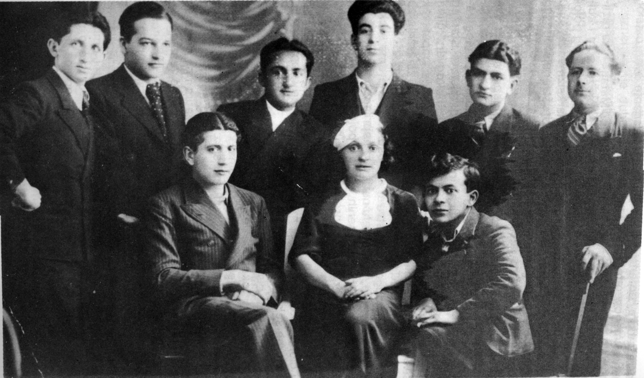 Skupina komunista JORZ "Matatje": Albert Maestro, Moni Finci, Albert Kamhi, Nlslm Albaharl, Ellezer Perera Lezo, Hajim Levi, sjede Moric Kabiljo, Bulkica Daniti, Jahiel Katan